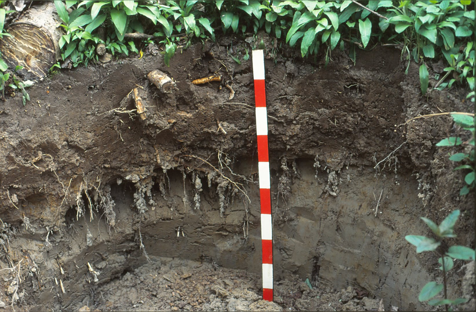 Gley soil (Ah-Go-Gr). Southern Black Forest, Germany